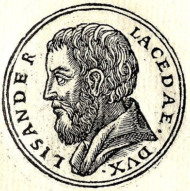 Lysander was a Spartan general who commanded the Spartan fleet in the Hellespont which defeated the Athenians at Aegospotami in 405 BC.